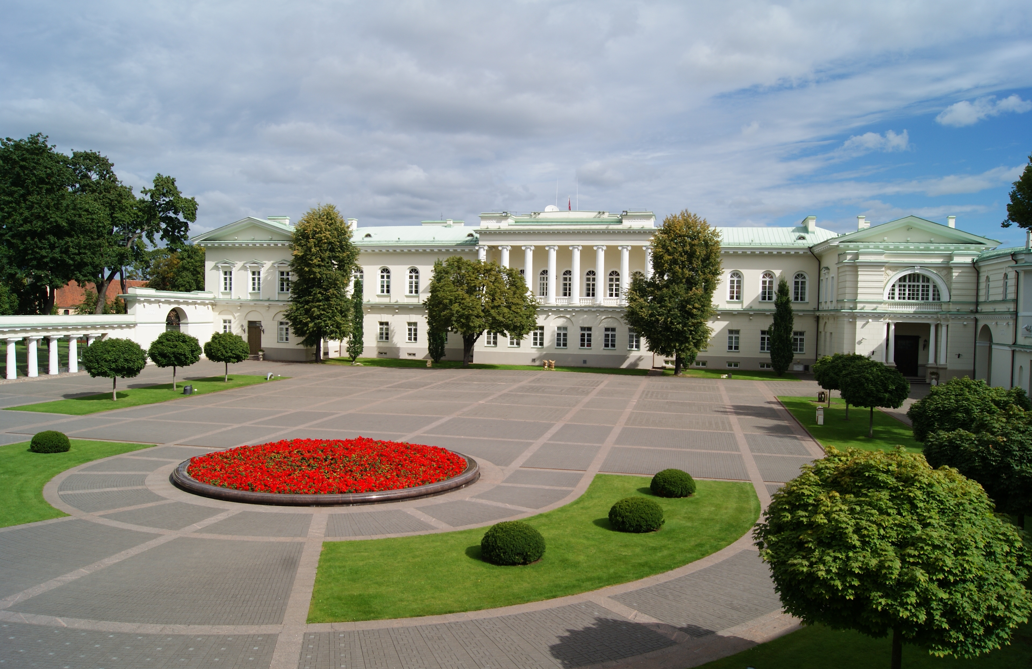 Read the story of this trip on !